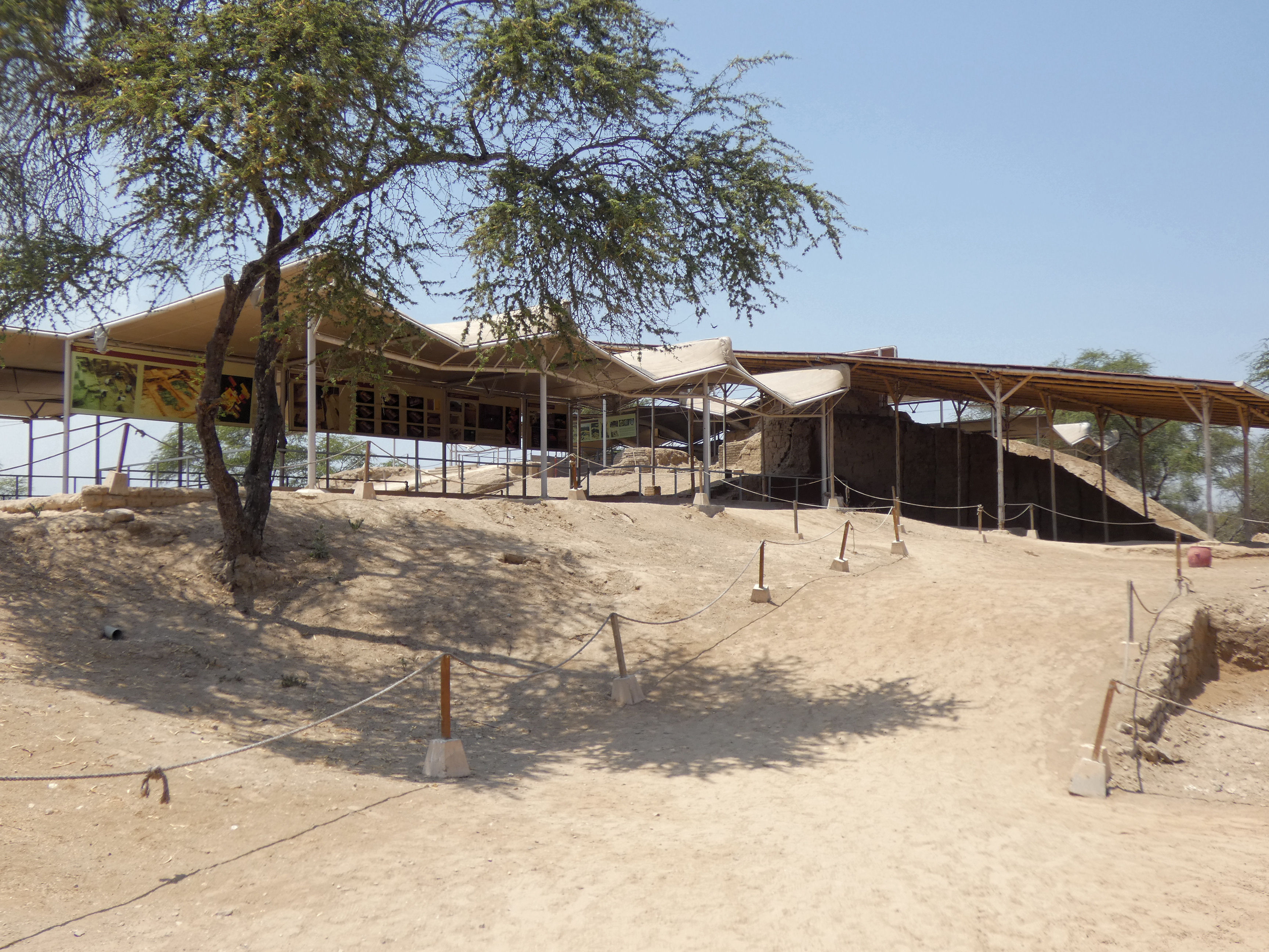 Site of Huaca Rajada with reconstructed tombs of the Moche Culture, Lambayeque, Peru